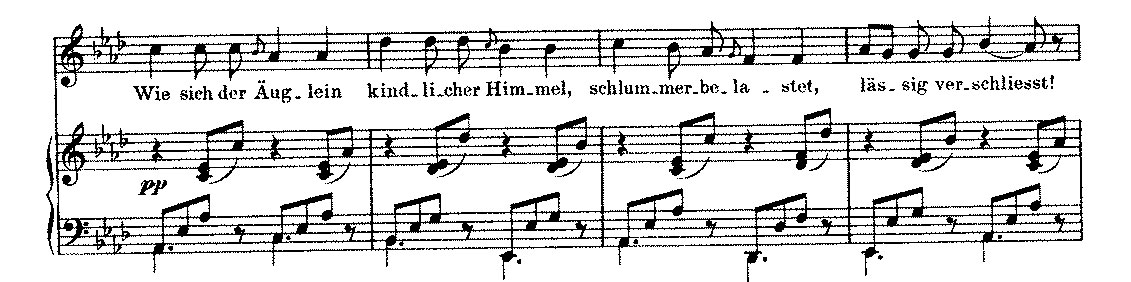 Bars 5-8 of Schubert's 'Wiegenlied' D 867, containing appoggiaturas approached by step.